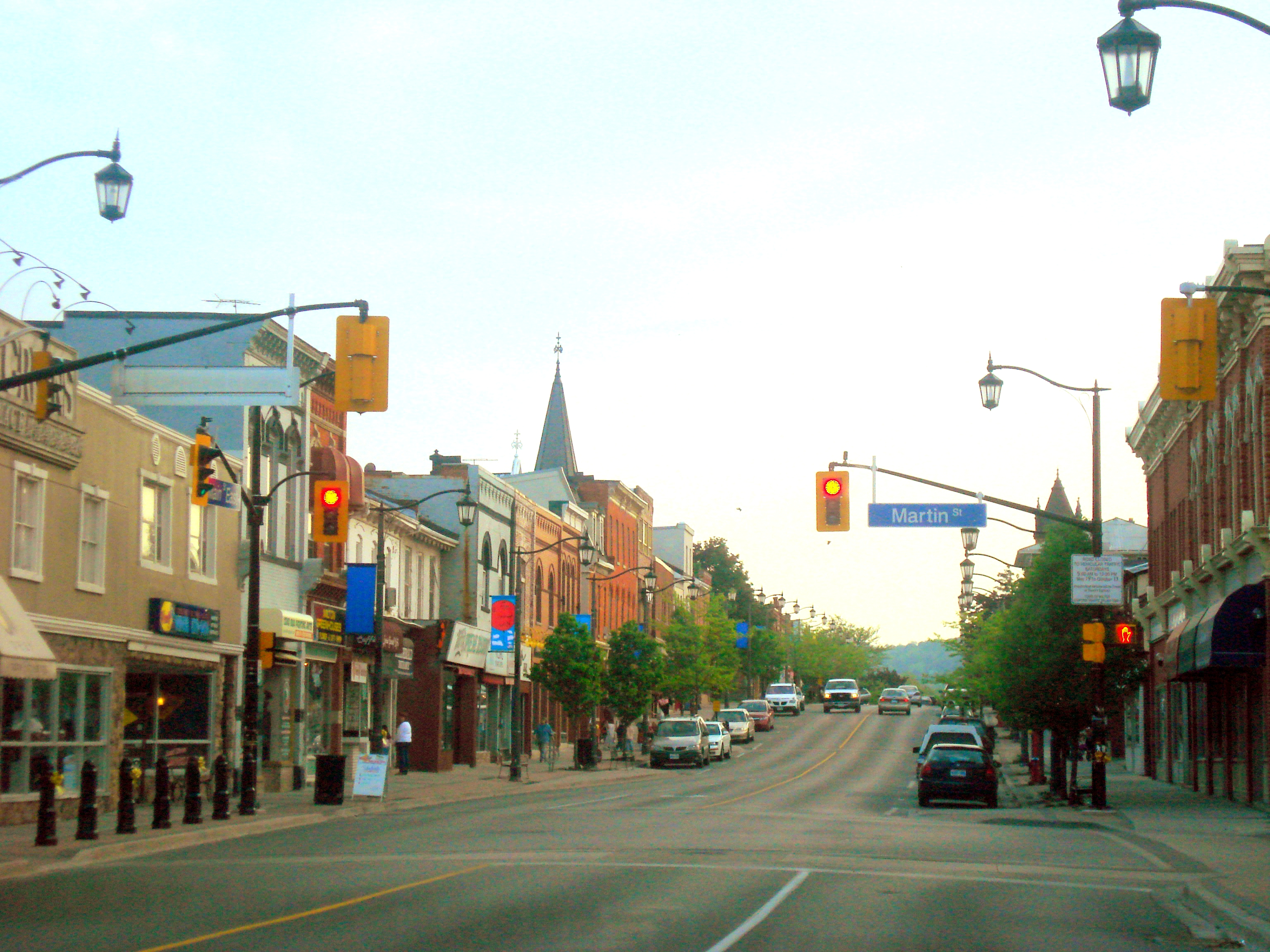 Main Street, downtown Milton, Ontario